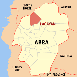 Map of Abra showing the location of Lagayan